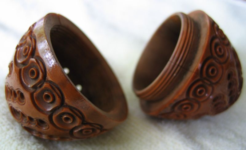 Flea trap, supposed to be from Coquilla nut